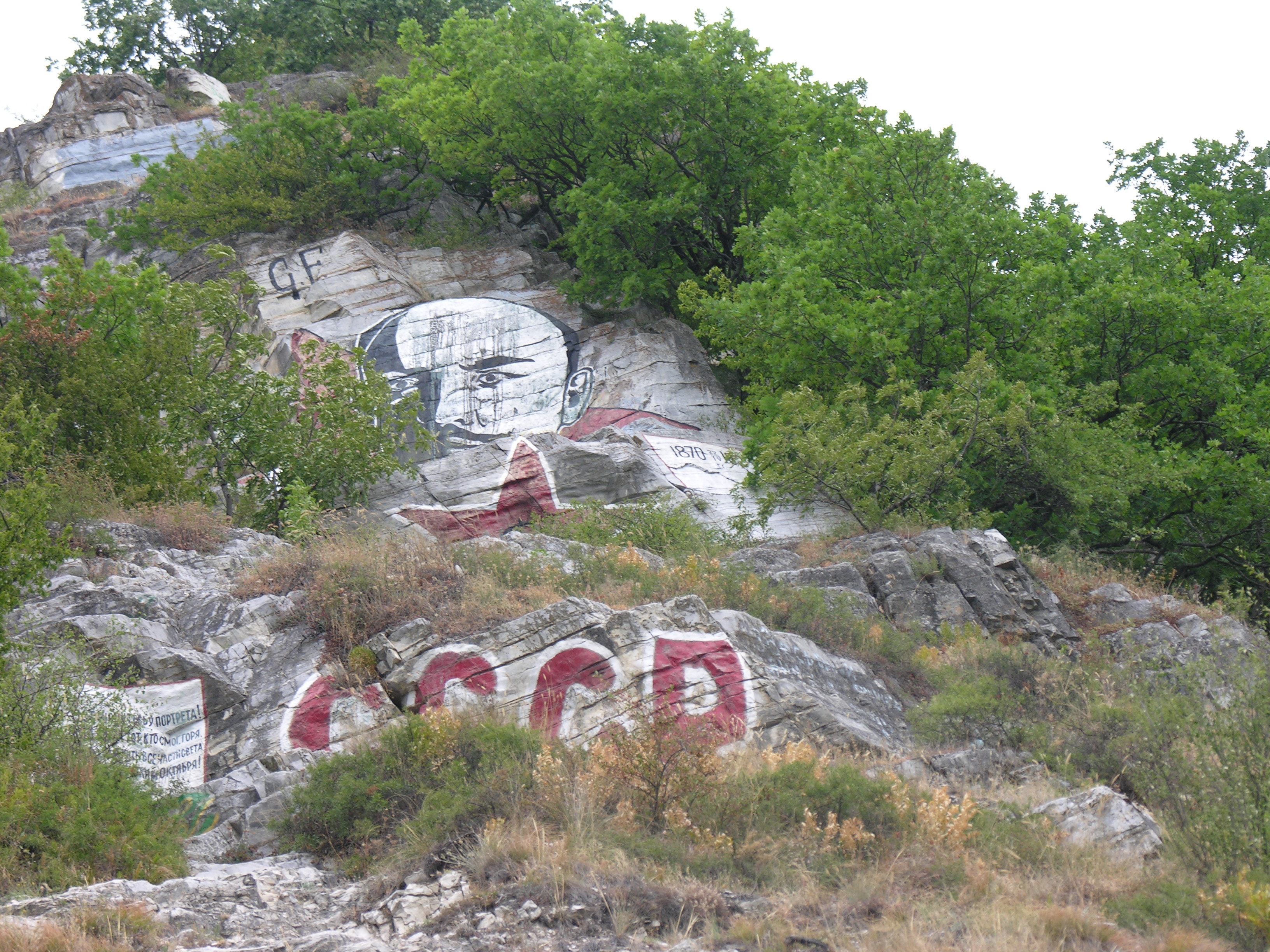 Lenin's portrait painted by N. Shuklin on the Mashuk mountain near Pyatigorsk in 1925 (picture shot in 2007).